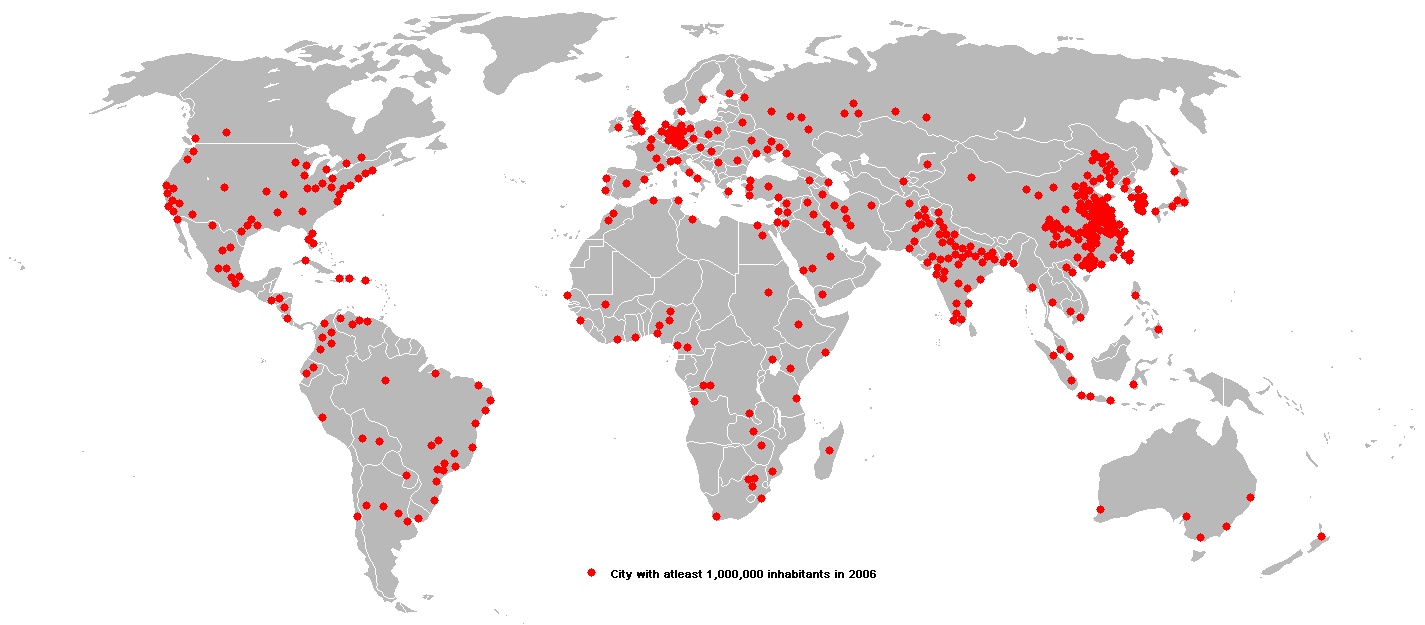 Updated version of this map.